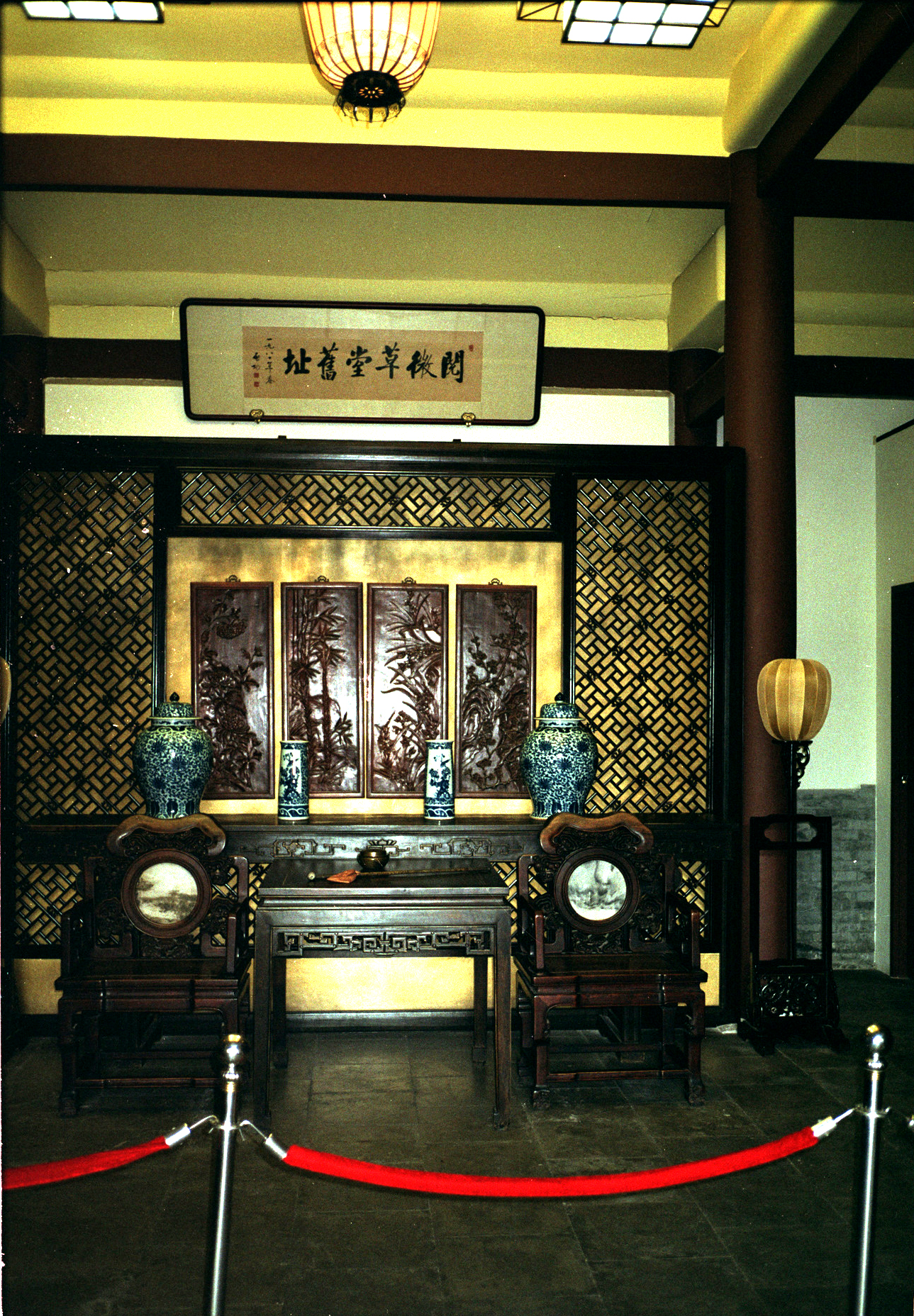 Yue Wei Cao Tang, Ji Xiaolan's former residence in Beijing